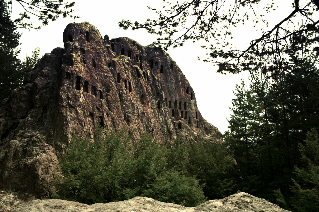 Eagle-Rocks Sanctuary BG